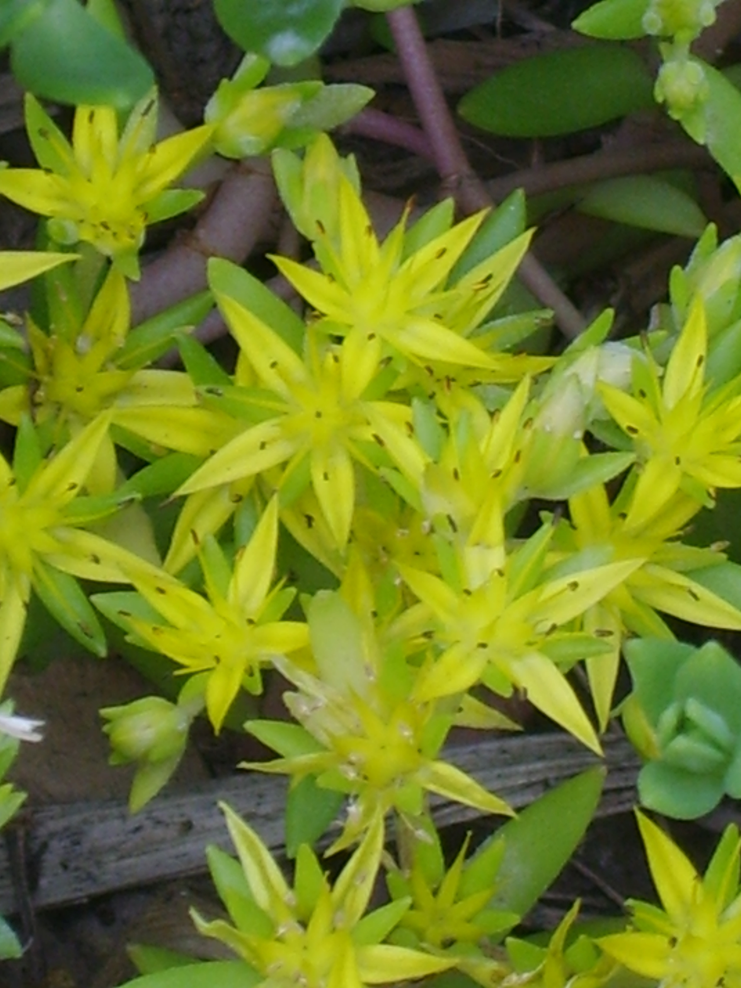 Sedum sarmentosum in Bupyung, Korea